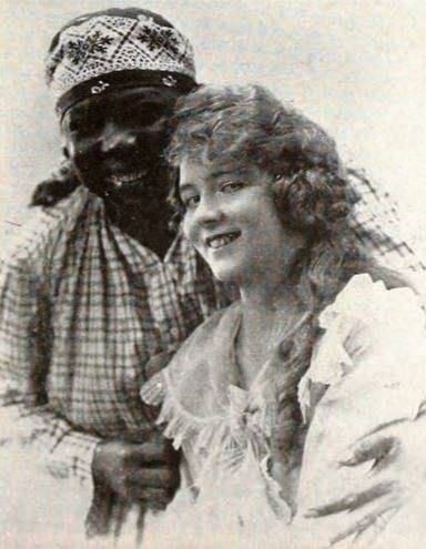 Still from the American comedy drama film The Mating (1918) with Frances Miller and Gladys Leslie, on page 49 of the October 19, 1918 Exhibitors Herald.